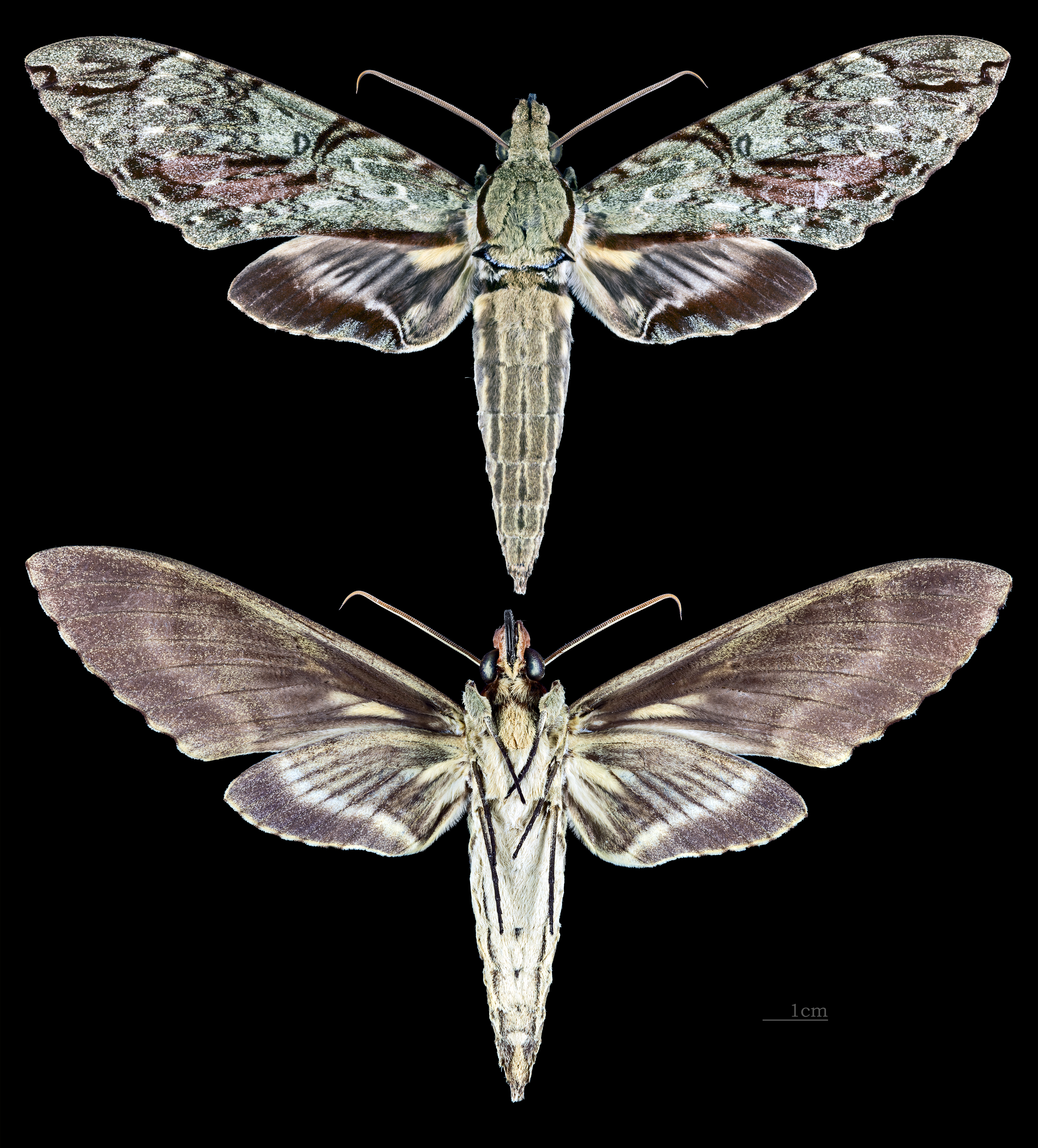 Amphimoea walkeri - Two views of same specimen Collection of the Mathematician Laurent Schwartz